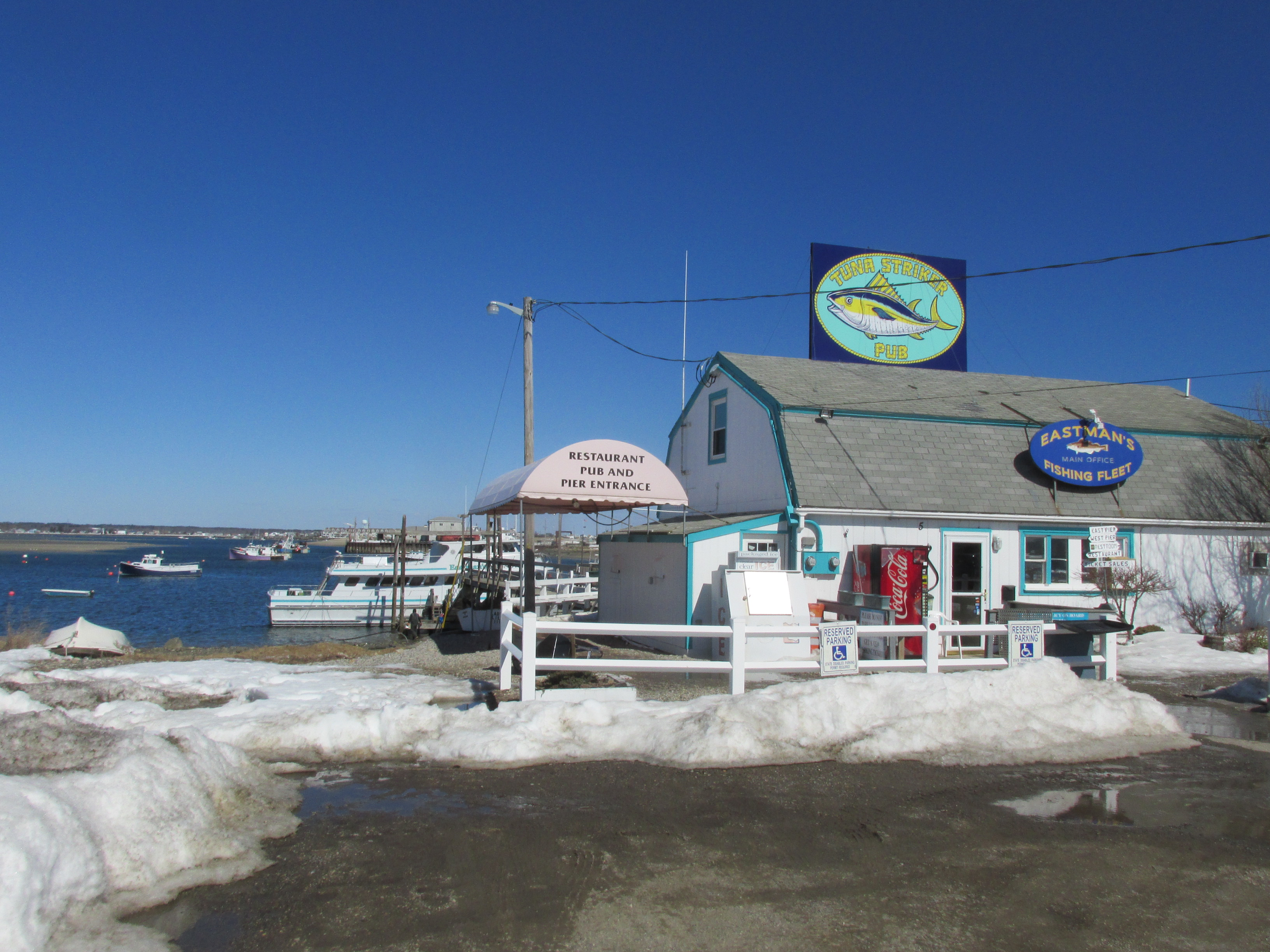 Eastmans Fishing Fleet, Seabrook Beach New Hampshire - 2014